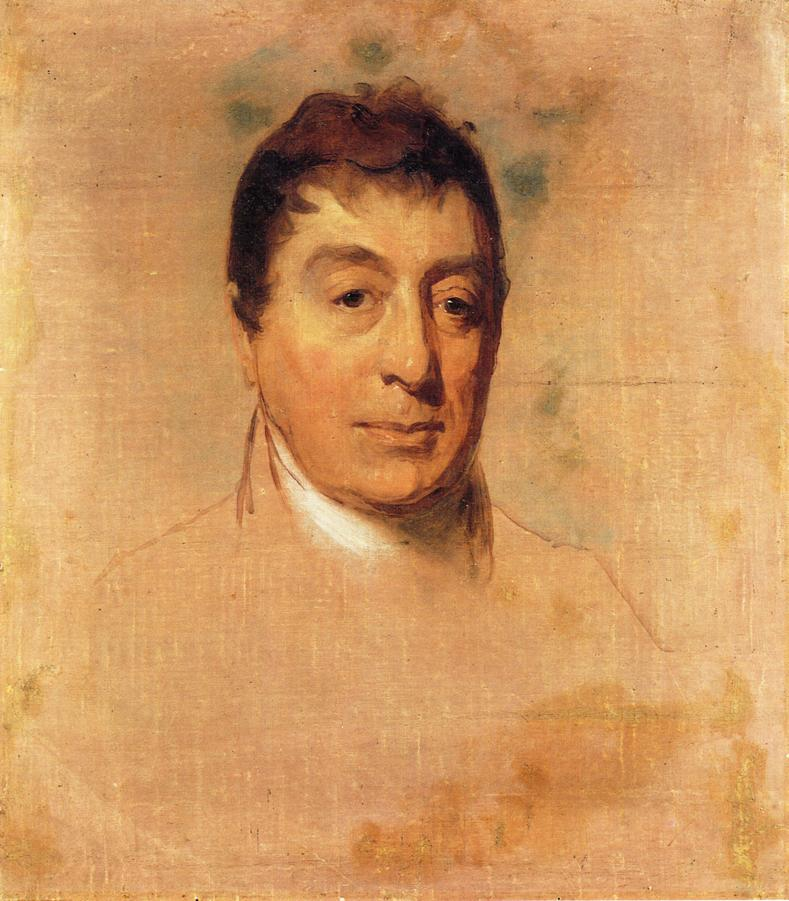 "A Life Study of the Marquis de Lafayett." Image courtesy of The Athenaeum.